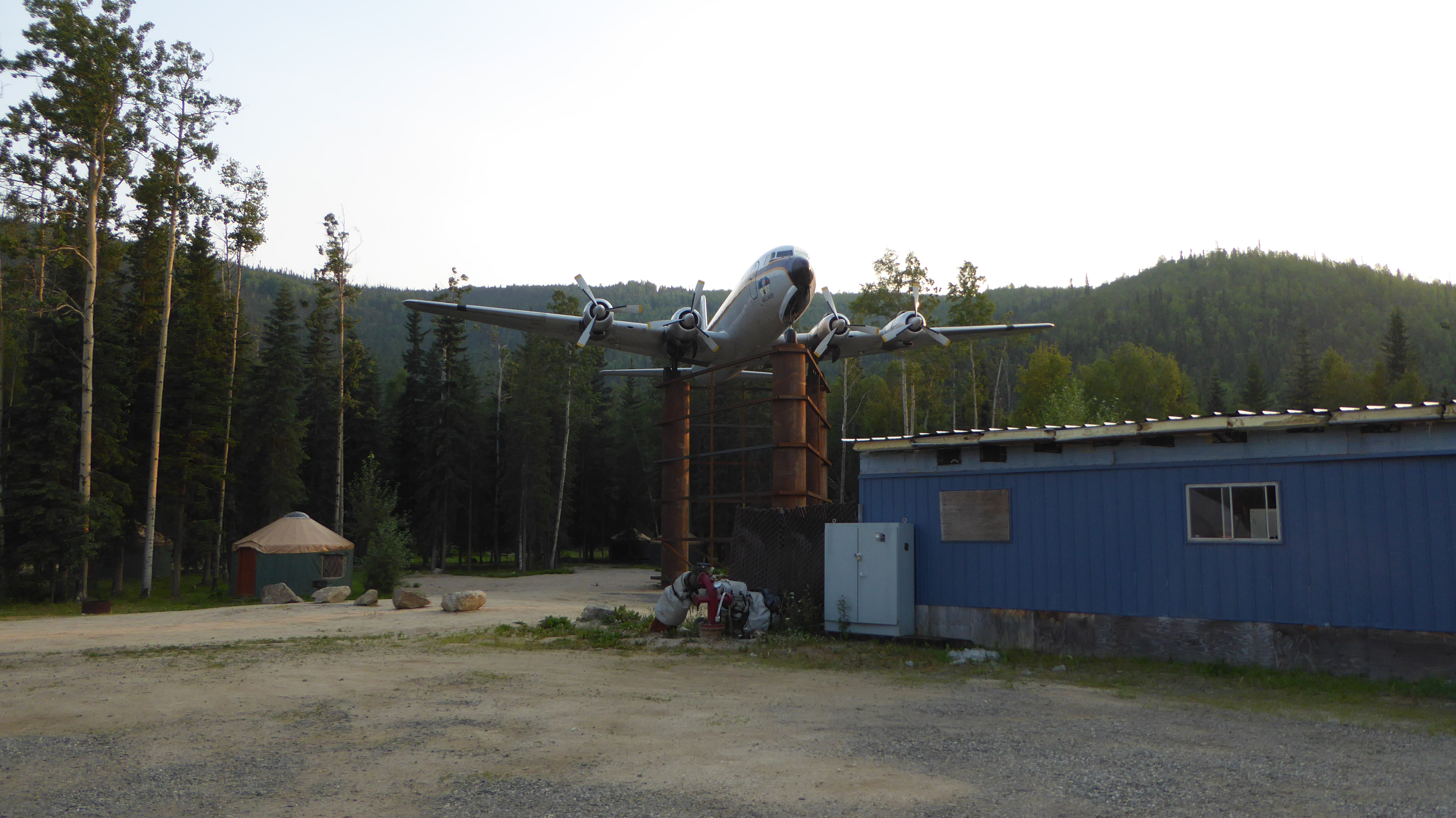 A DC6 aircraft previously owned by Everts Air Cargo on display at Chena Hot Springs, AK. Landed on a dirt airstrip and hoisted on top of 30-foot poles for display.